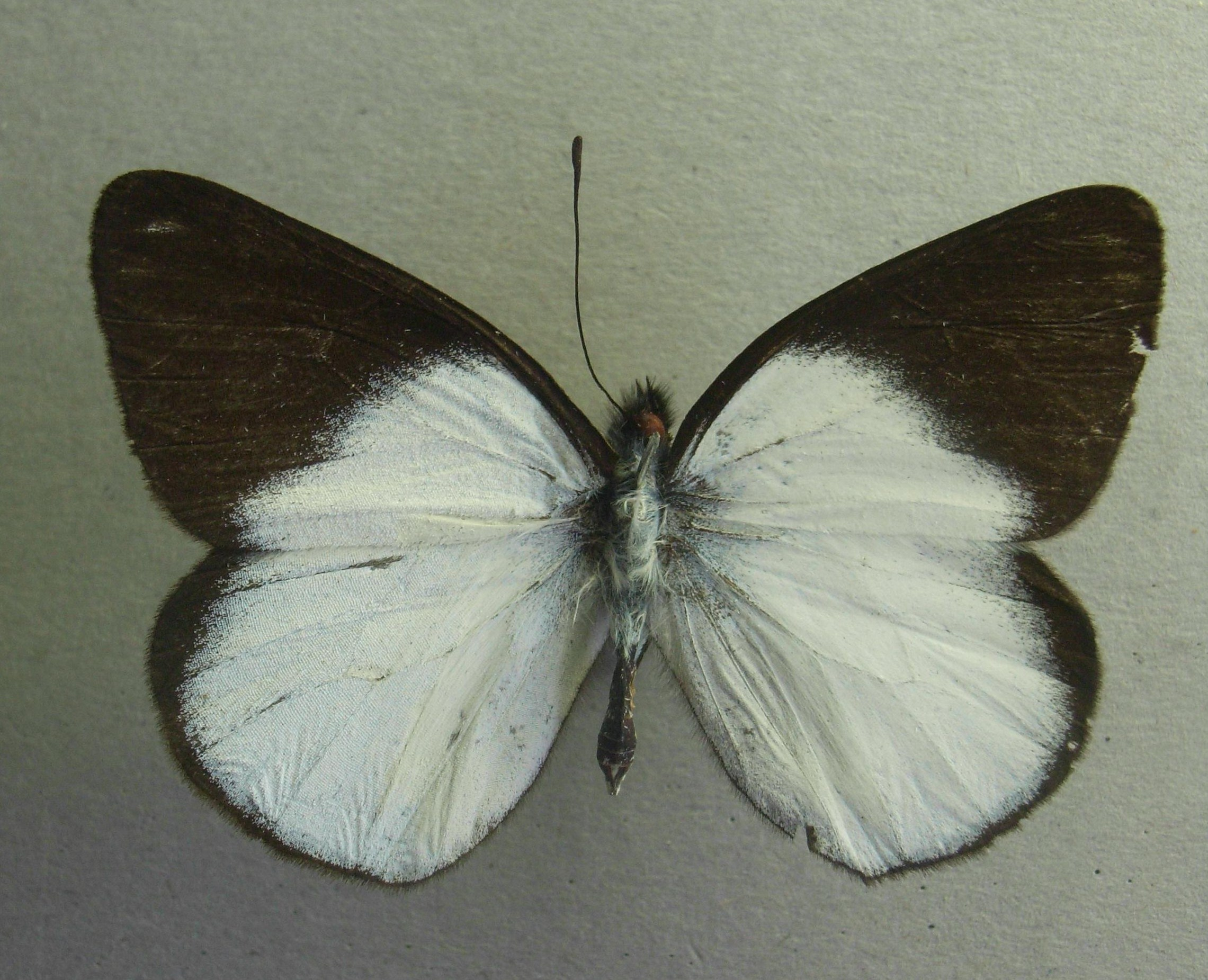 Delias nais Upperside:Pierinae:Pieridae